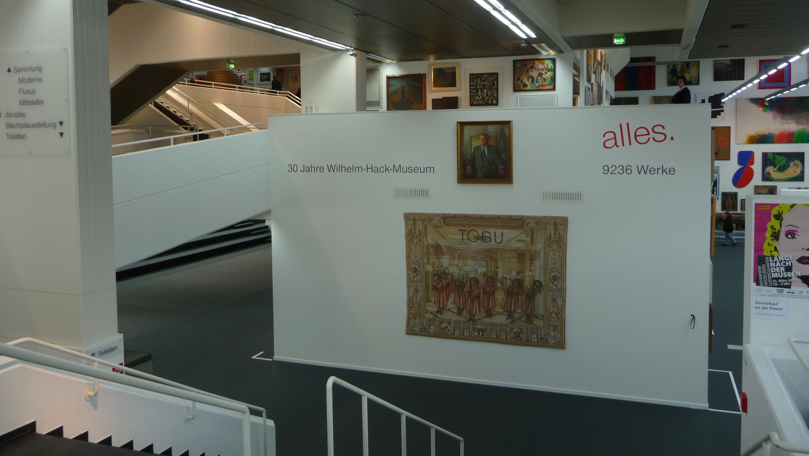 Wilhelm-Hack-Museum in Ludwigshafen, Germany